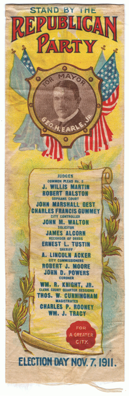 "Stand by the Republican Party." November 7, 1911 Election Day ribbon, Philadelphia, PA: George H. Earle, Jr. for Mayor. Image viewed in full resolution as uploaded shows actual size.